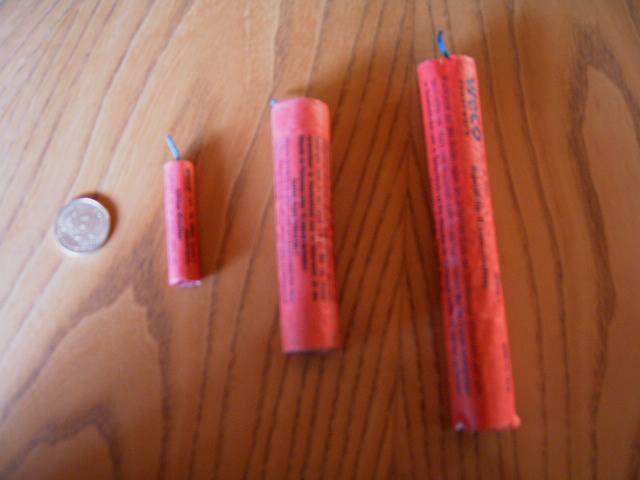 Firecracker